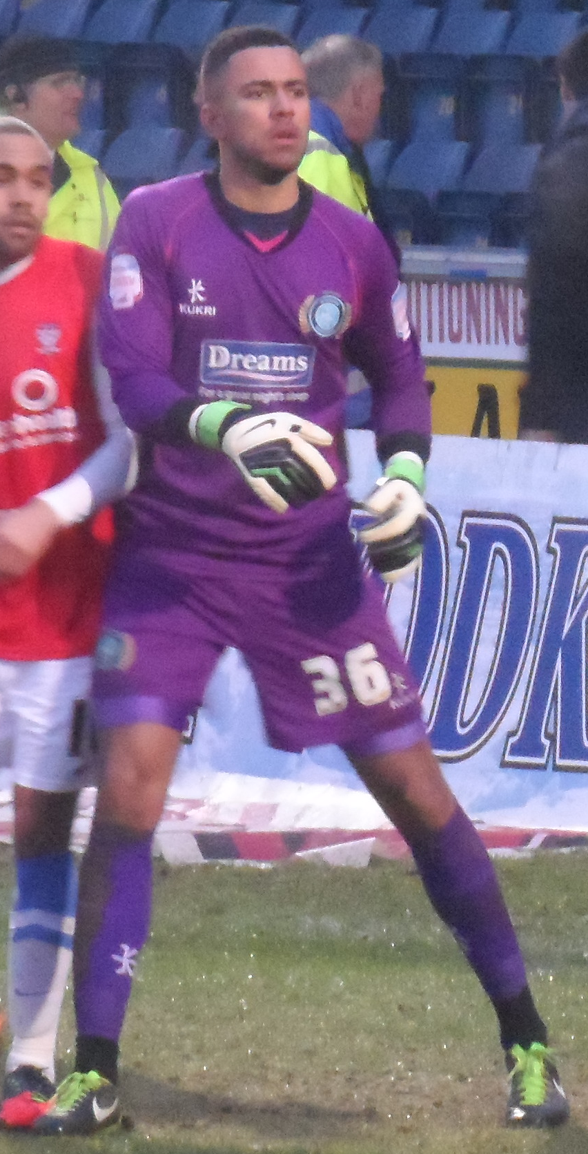 Jordan Archer. Image cropped from original at flickr.